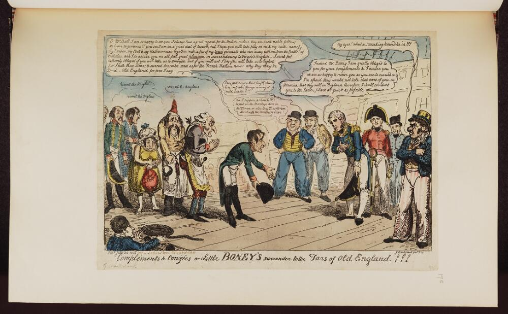 British political cartoon; Name of publisher supplied in MS.